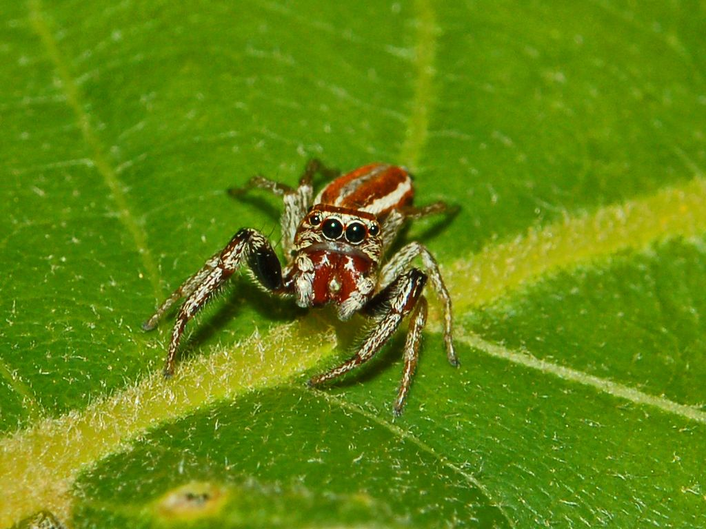 Icius hamatus, male, Genova Italy